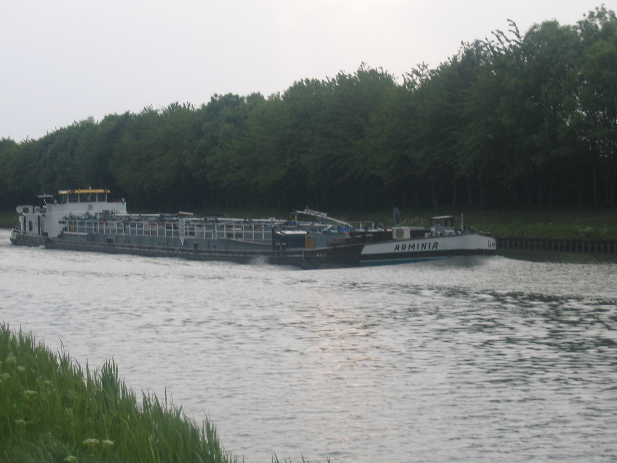 Ship in Preußisch Oldendorf, District of Minden-Lübbecke, North Rhine-Westphalia, Germany.